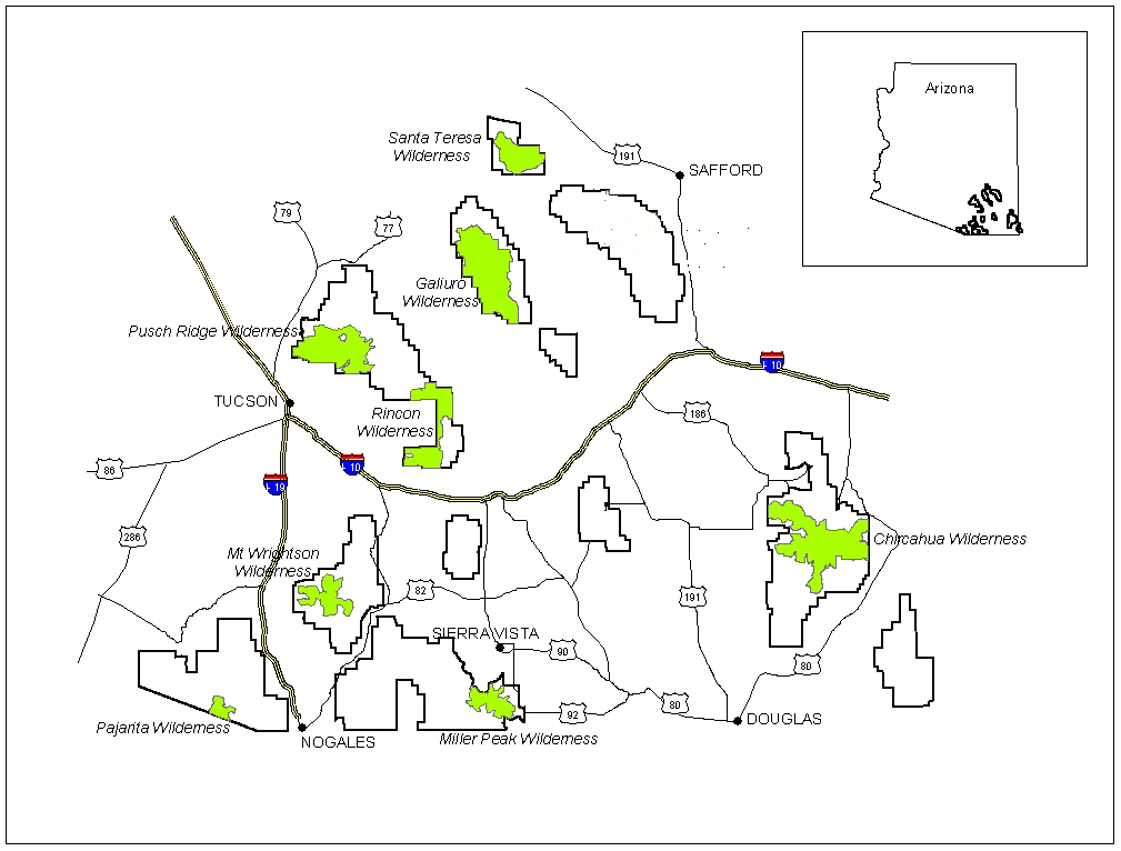 Map of designated wilderness areas within the Coronado National Forest of southeastern Arizona.